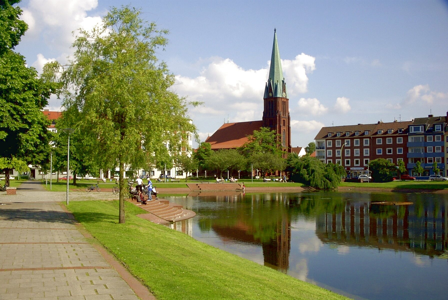 View of the former Holzhafen and the Christuskirche in Bremerhaven, Germany. Now a pond in park. Originally uploaded to the German Wikipedia by Vulkan (Uwe H. Friese), transferred to Wikimedia Commons by Garitzko.